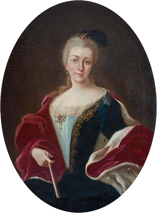 Ritratto giovanile de Regina Maria Amalia di Sassonia oil on canvasmedium QS:P186,Q296955;P186,Q12321255,P518,Q861259 Height: 102.5 cm (40.3 in); Width: 75 cm (29.5 in) dimensions QS:P2048,102.5U174728;P2049,75U174728 Auction: 16 May 2018